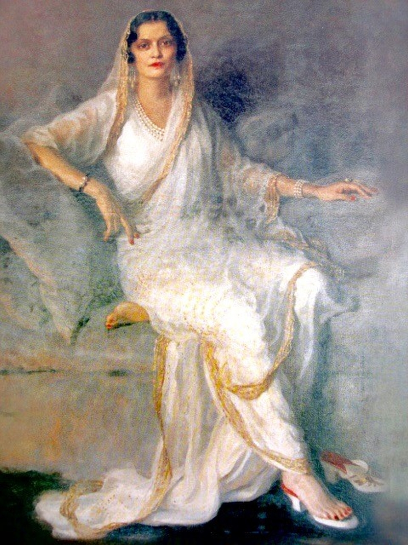 Philip Alexius de László: Portrait of Maharani Indira Devi of Baroda and Cooch Behar